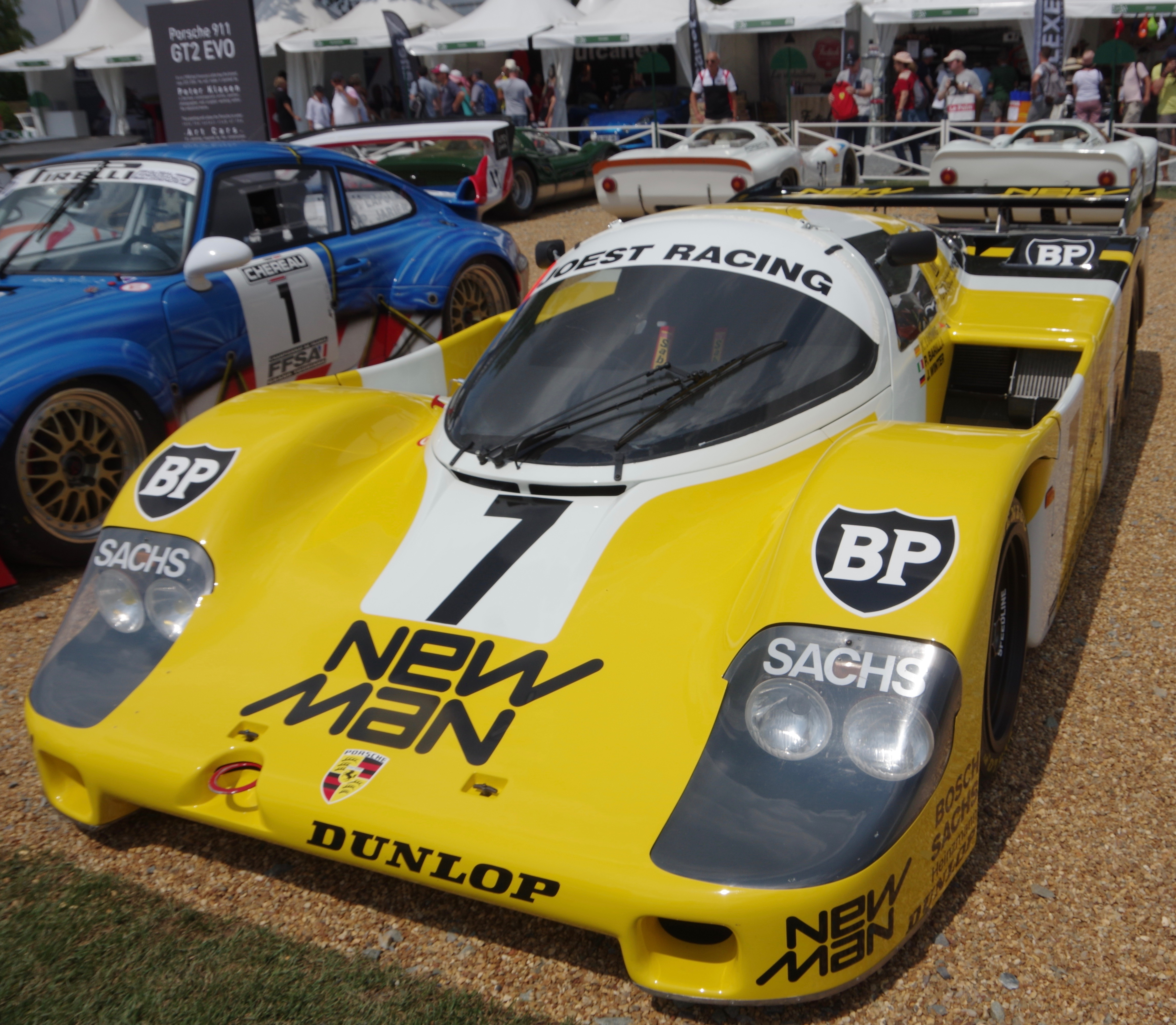 Porsche 956B, winner of the 1985 24 Hours of Le Mans, 2018 Le Mans Classic.